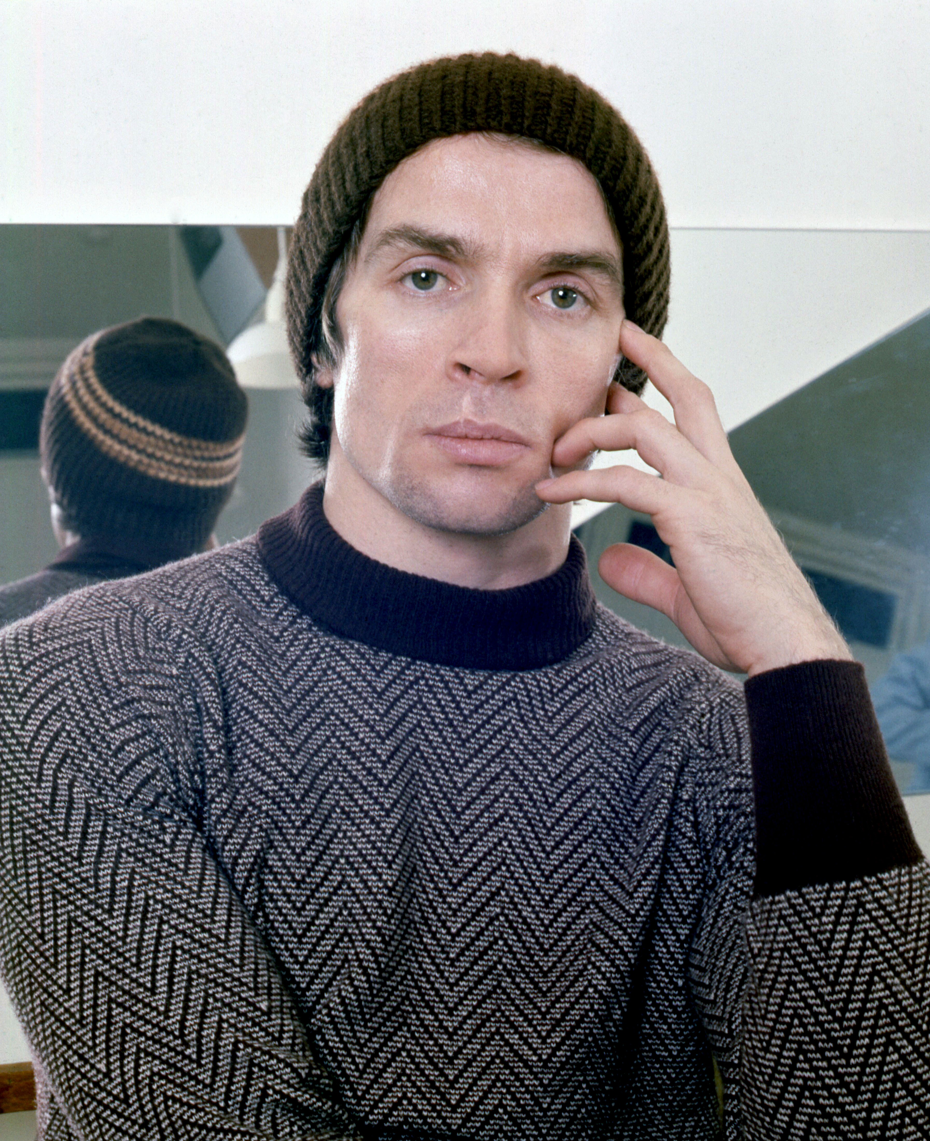 Nureyev Dressing Room Roal Ballet School Barons Court London